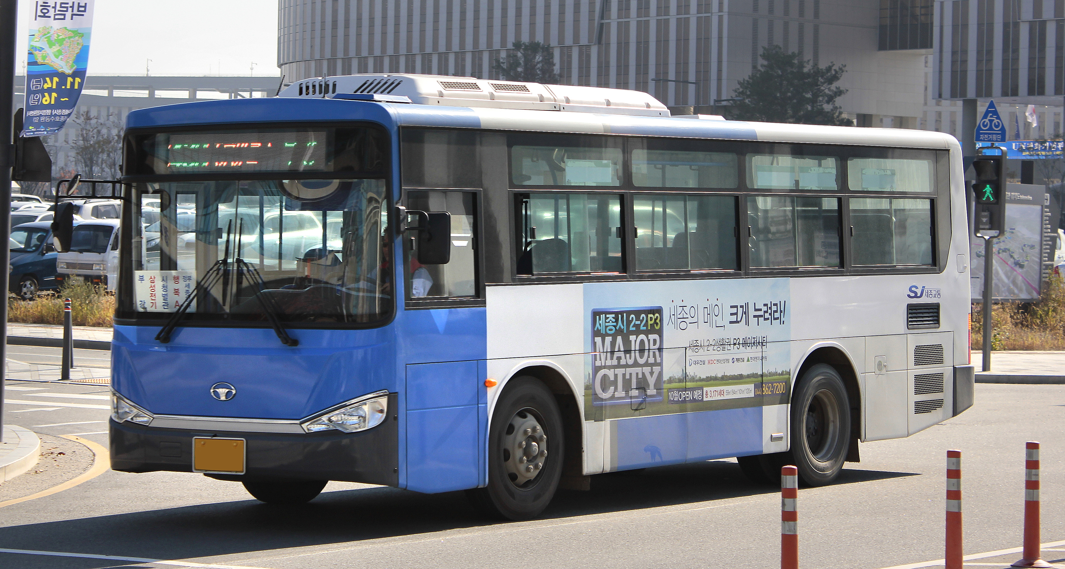 Daewoo New BS090 Motorcoach in SJ Transit New Livery